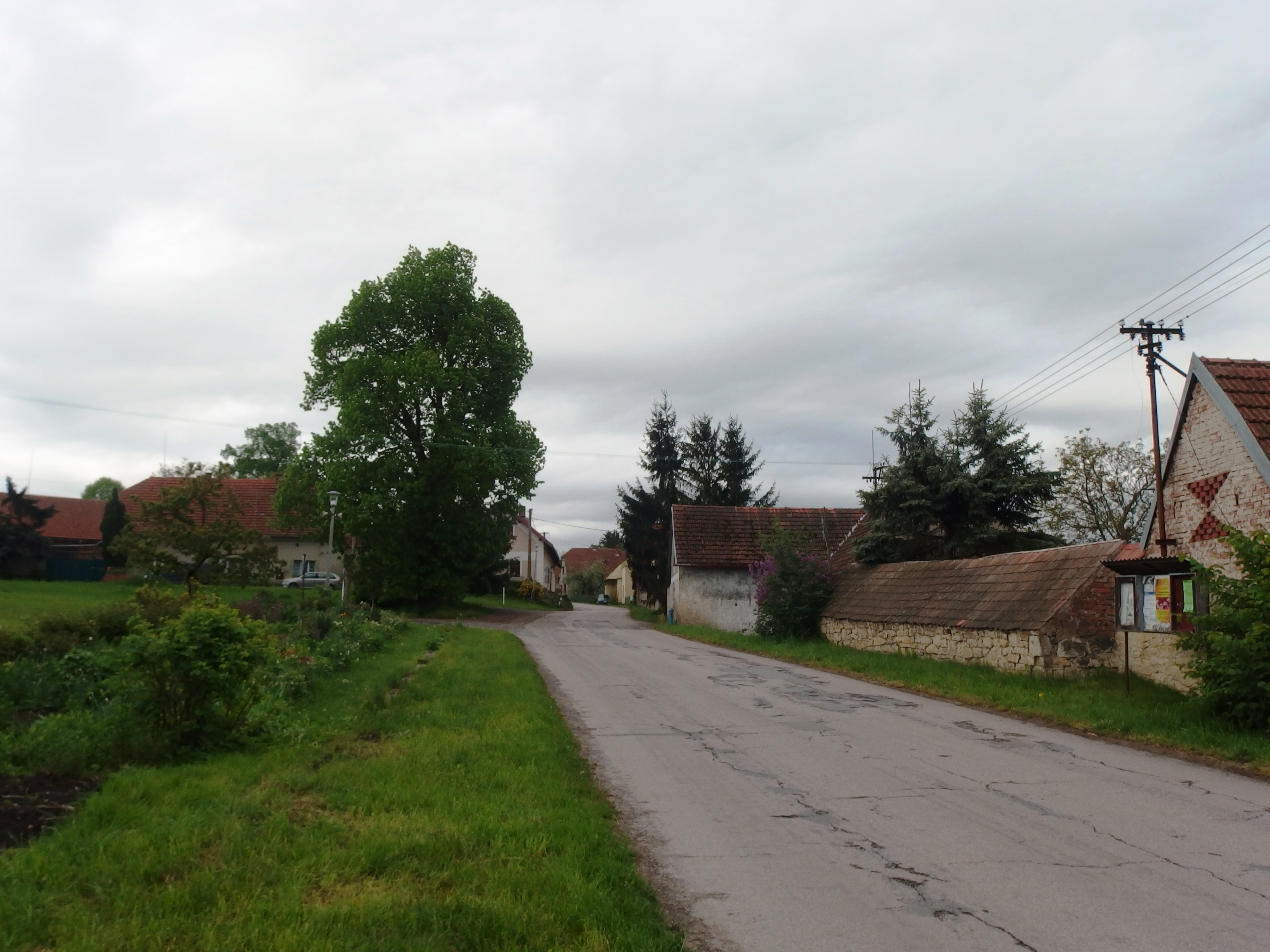 Zádolí, Ústí nad Orlicí District, Czech Republic, part Stříhanov.